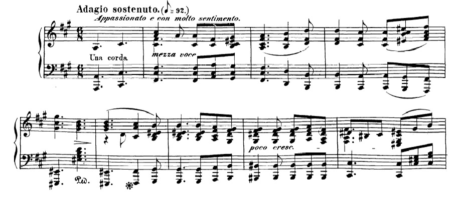 Ludwig van Beethoven's Piano Sonata No. 29 in B-flat major, Op. 106 Hammerklavier (1818)